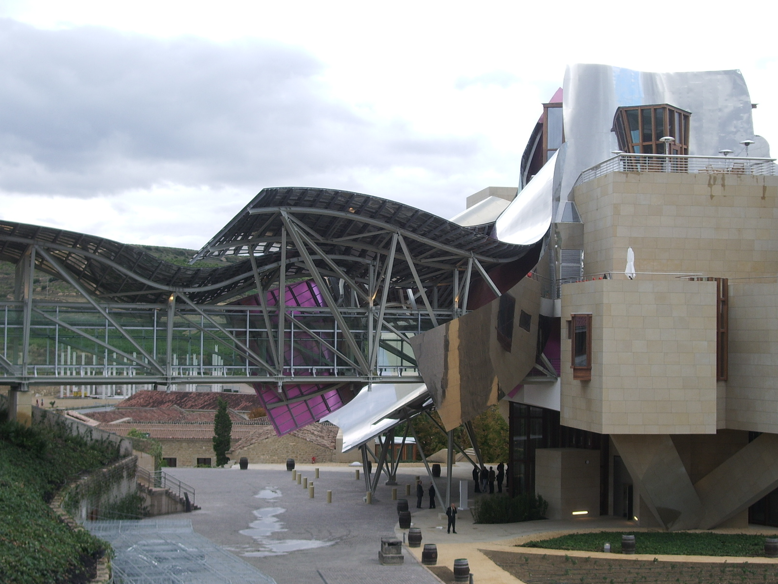 Marqués de Riscal wine cellar and hotel in Elciego, Álava, Spain (by architect Frank Gehry)